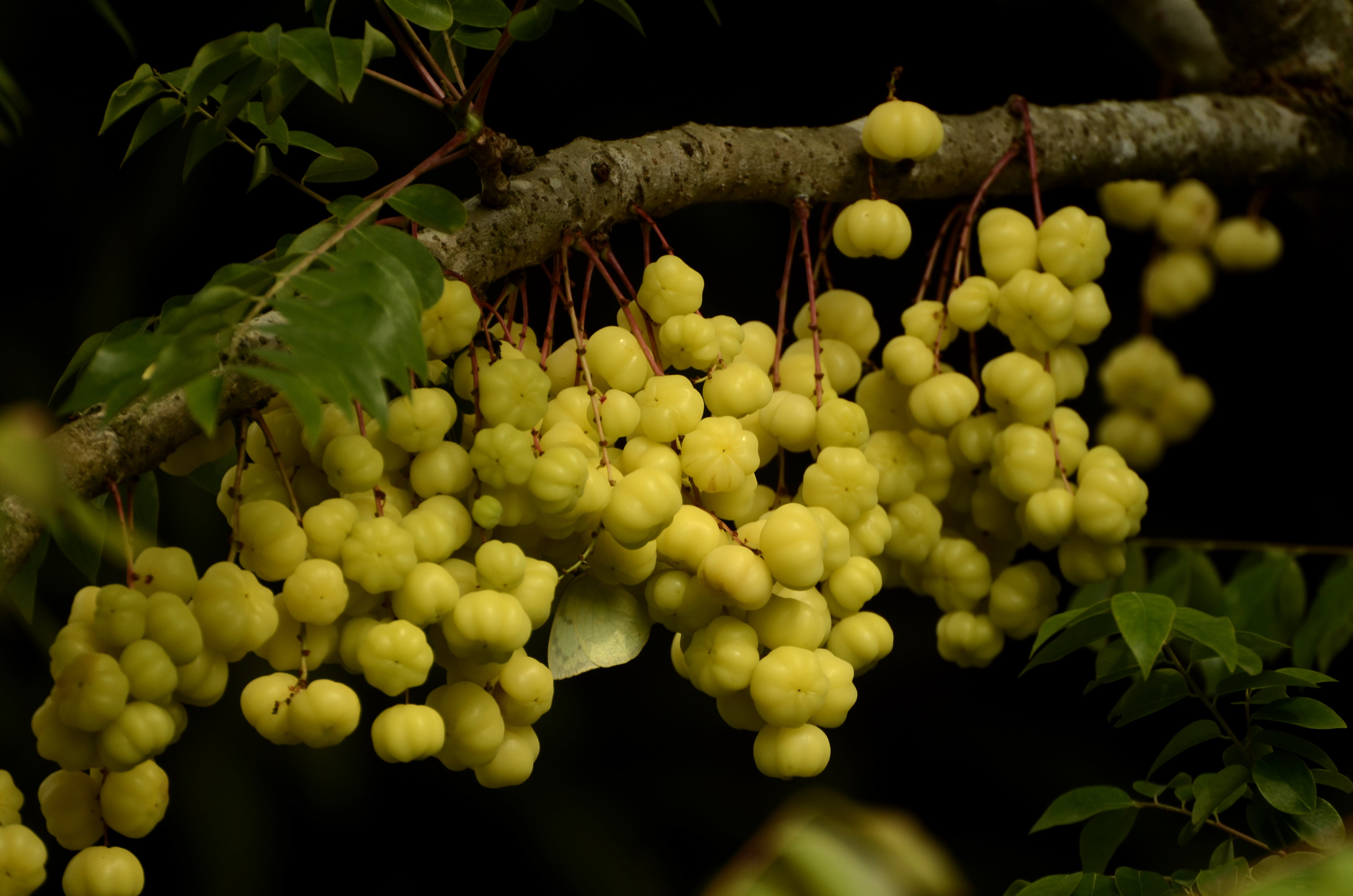 Phyllanthus acidus_fruits_in the branch1